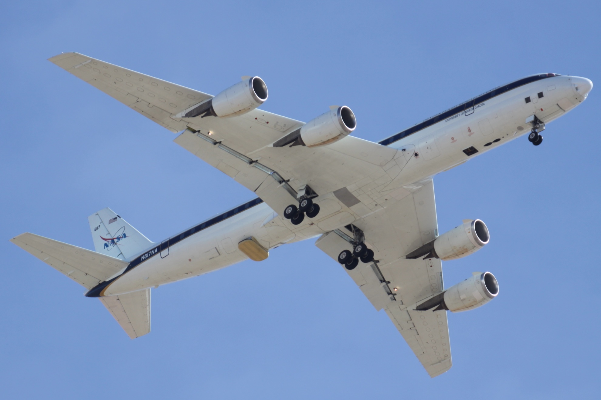 At Victorville